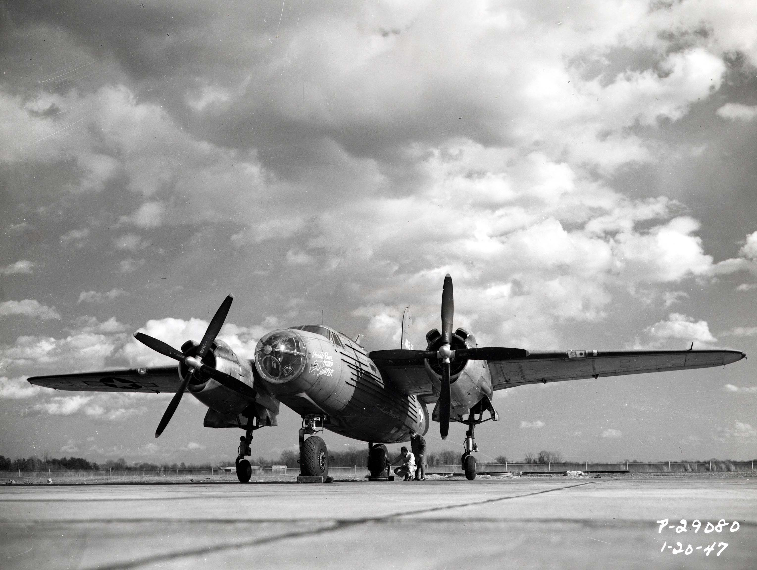 A low-angle view of the XB-26H Marauder and its experimental "bicycle" landing gear.